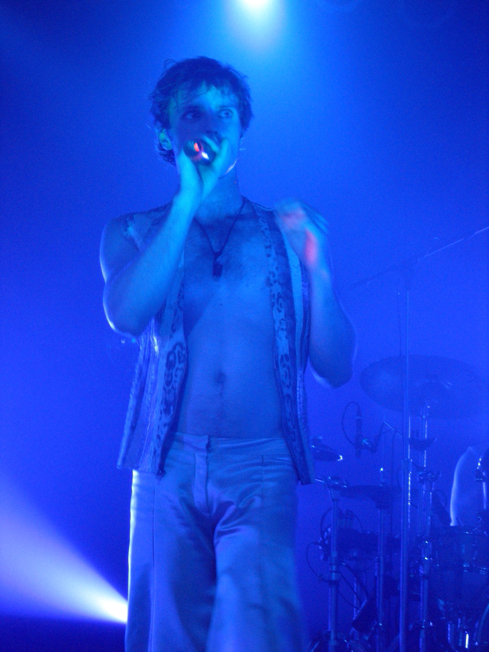 Captured photo at the Rave, Milwaukee, Wisconsin USA In January 2005.